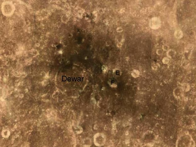 Dewar crater Clementine image from Map-A-Planet